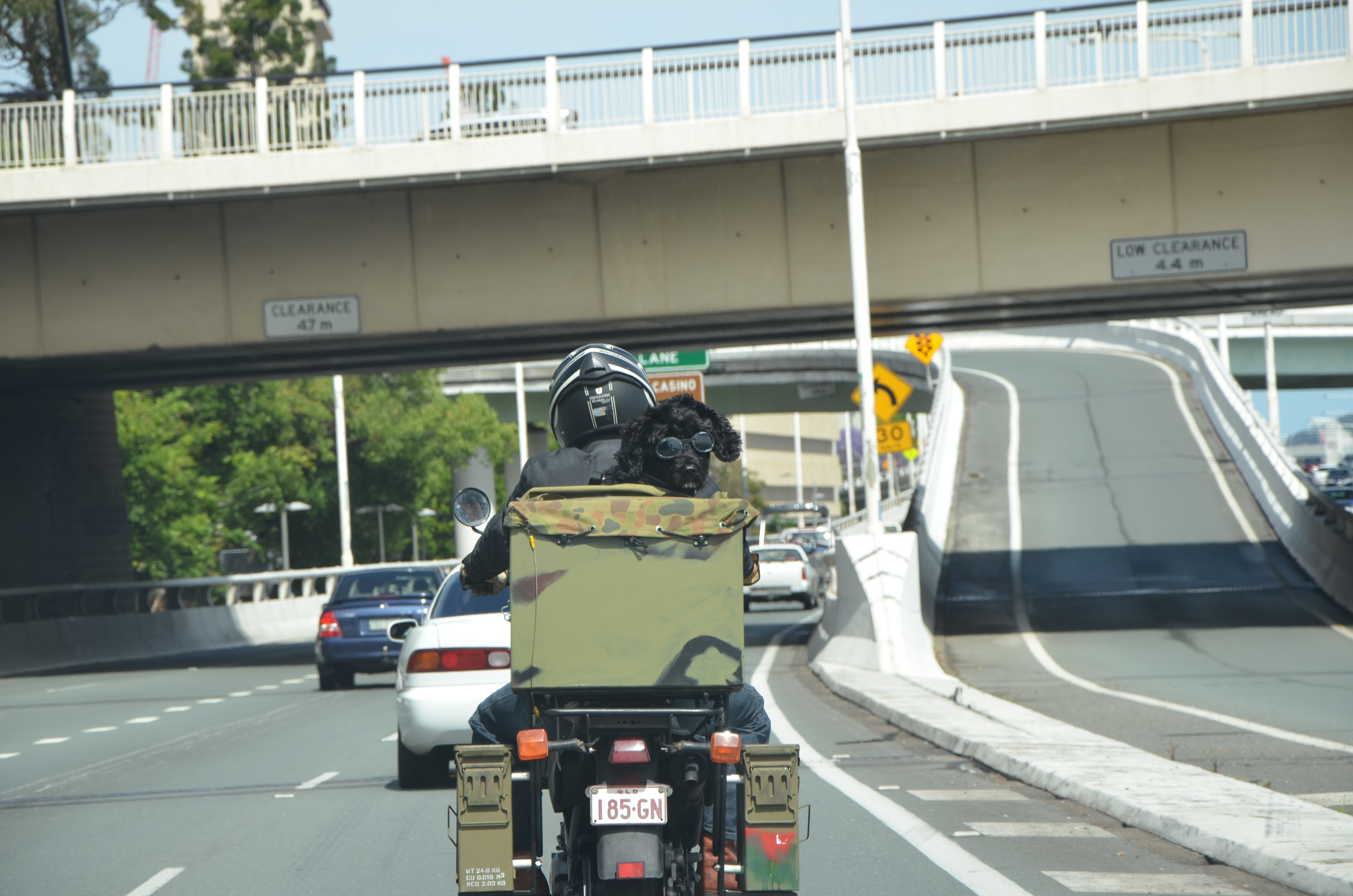 Dog wearing "doggles" while riding on the back of a motorbike, Riverside Expressway, Brisbane, Australia.